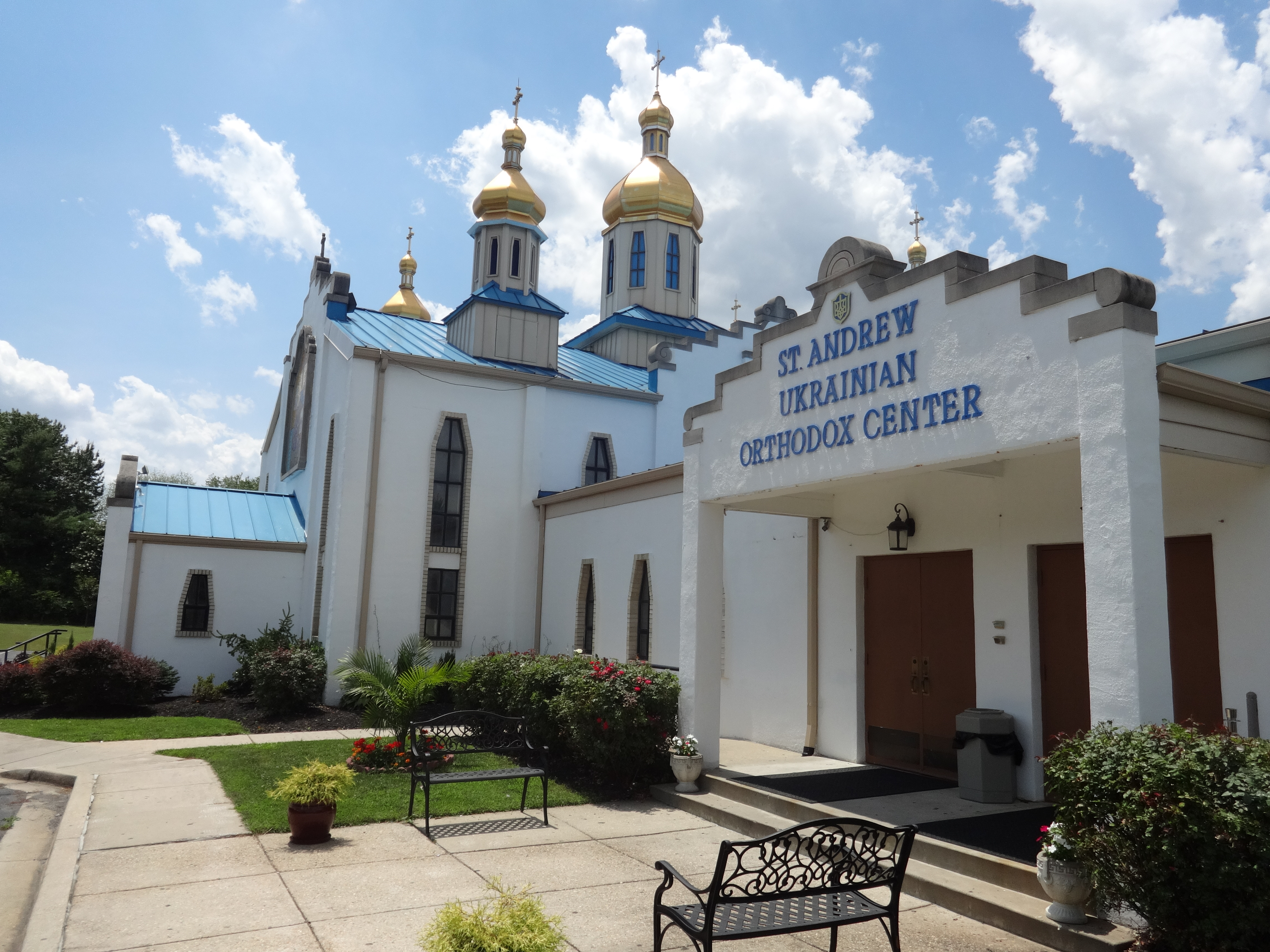 St. Andrew Ukrainian Orthodox Cathedral, Silver Spring, Montgomery County, Maryland.